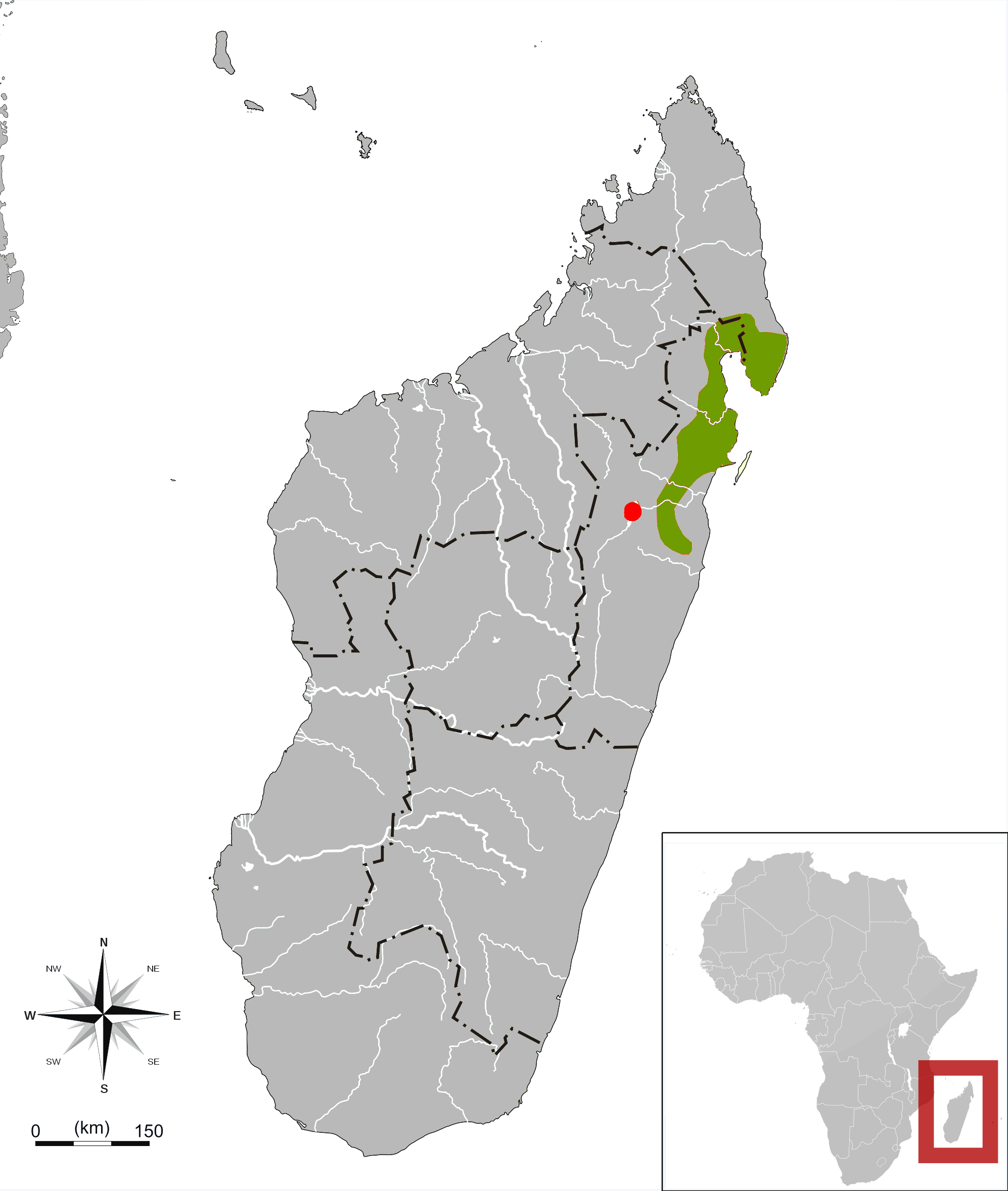 Distribution of the genus Salanoia